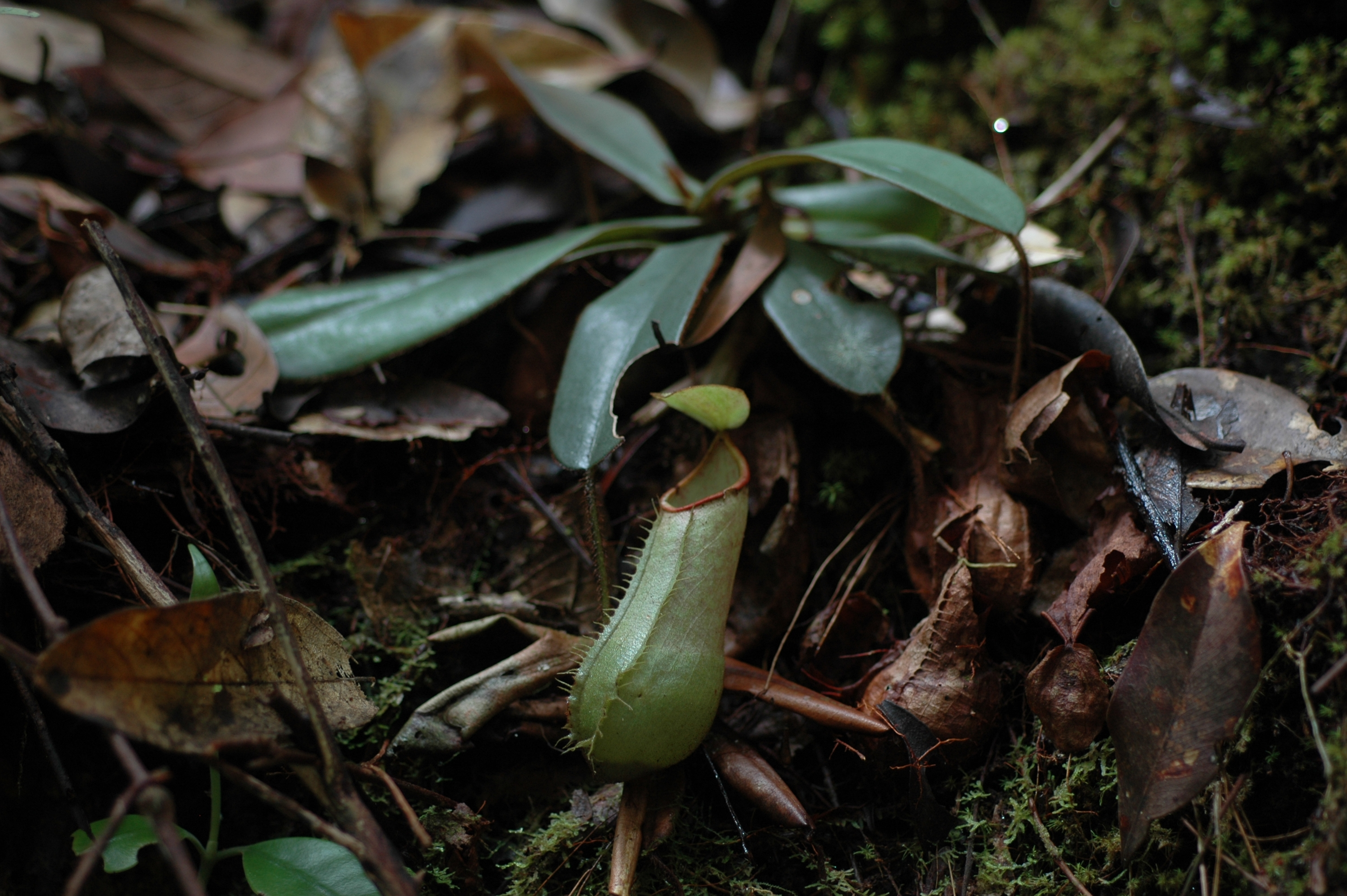 Nepenthes hispida Lambir Hills by Jeremiah Harris